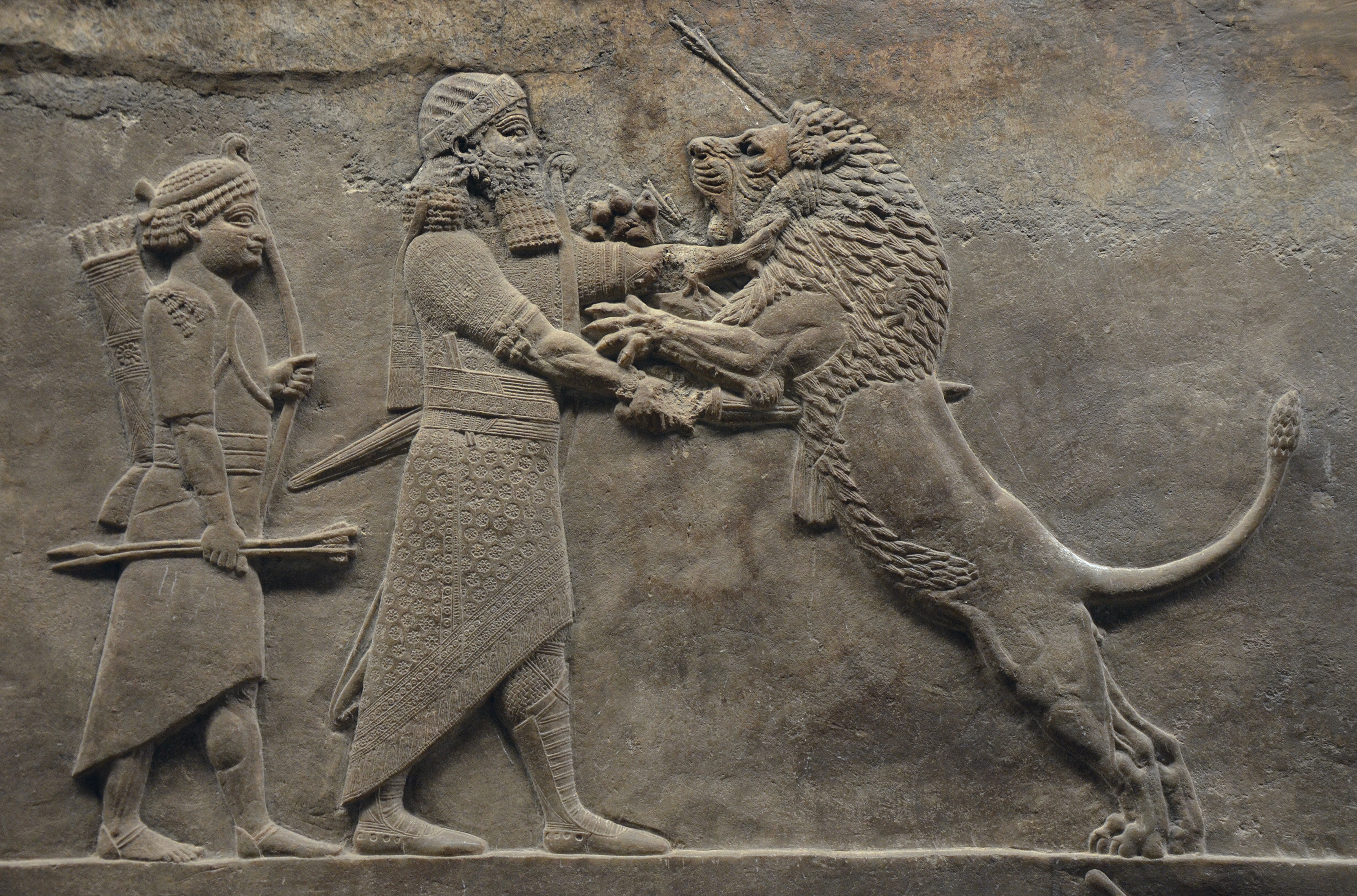 Sculpted reliefs depicting Ashurbanipal, the last great Assyrian king, hunting lions, gypsum hall relief from the North Palace of Nineveh (Irak), c. 645-635 BC, British Museum